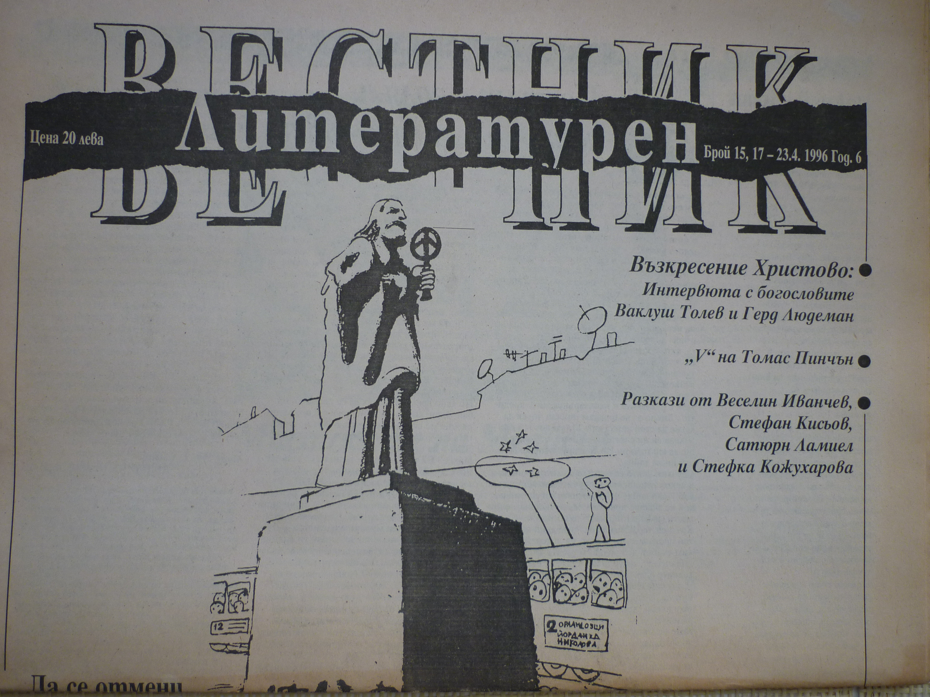 Literaturen vestnik front page from 17 April 1996, # 15.